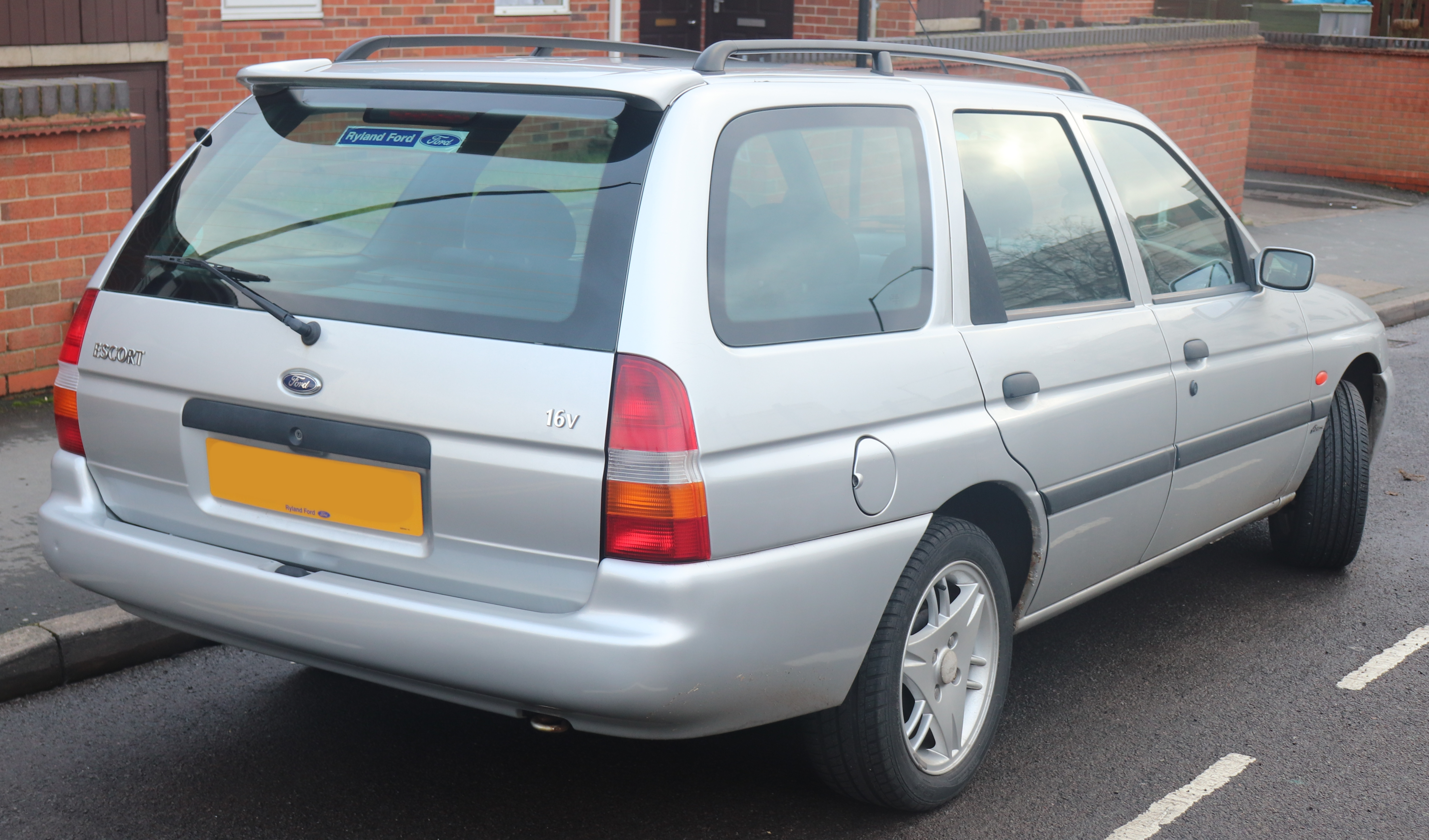 2000 Ford Escort Finesse Estate 1.6 Rear Taken in Leamington Spa